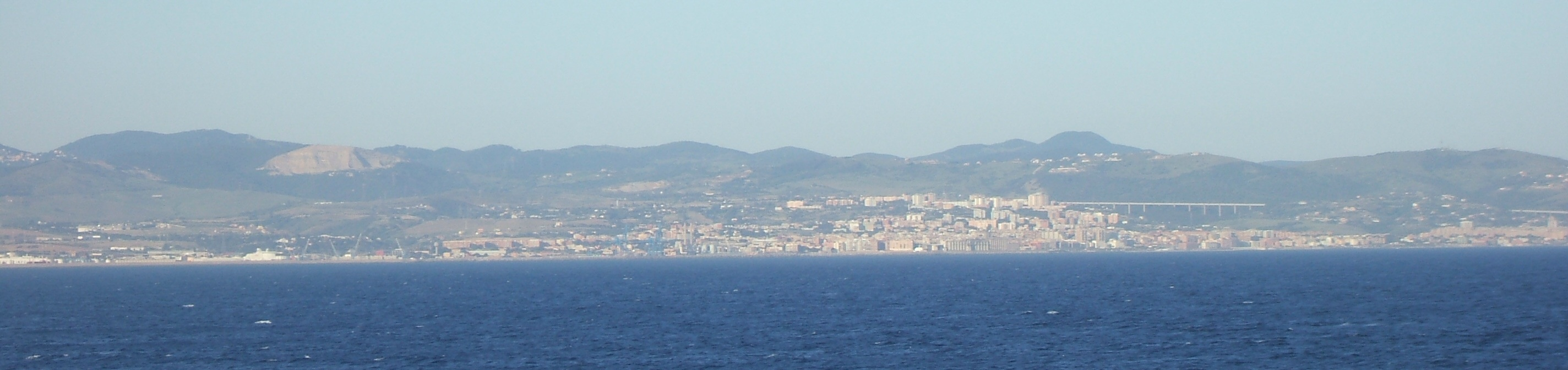 Civitavecchia as seen from the sea.